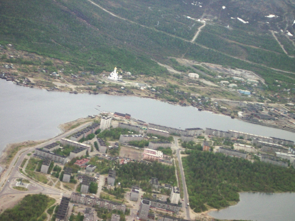 A bird's eye view of the southeastern section of Monchegorsk, looking south along Fersman St. The Monche Guba (a bay of Lake Imandra) is in the center; Komsomolskoye Lake, in the bottom right corner. The old neighborhood of Moncha, with its new (early 1990s) church, in the background, beyond the Monche Guba; the forest in the fack background covers the northern foothills of Mt. Moncha.